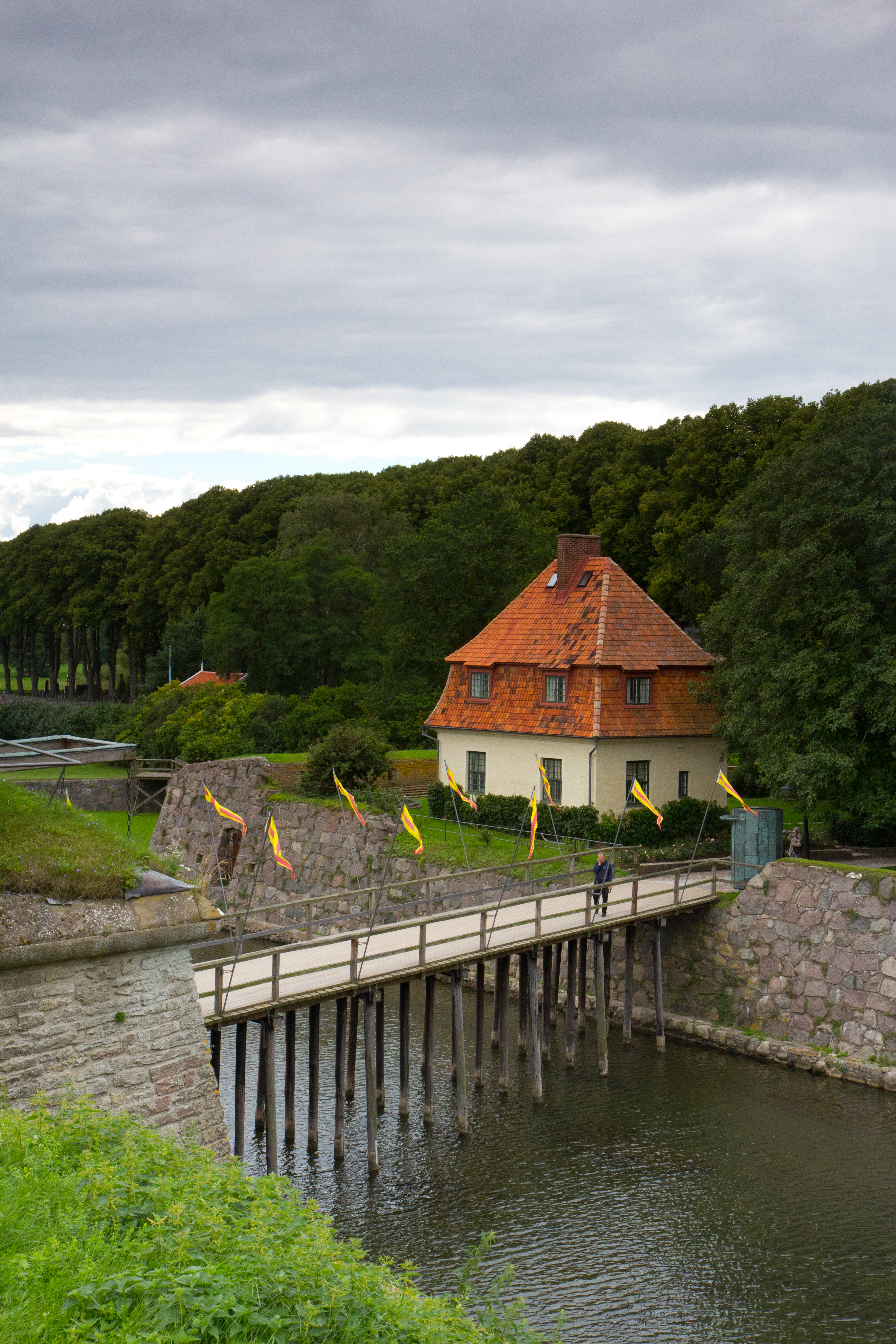 Bridge to Kalmar Castle viewed from the castle